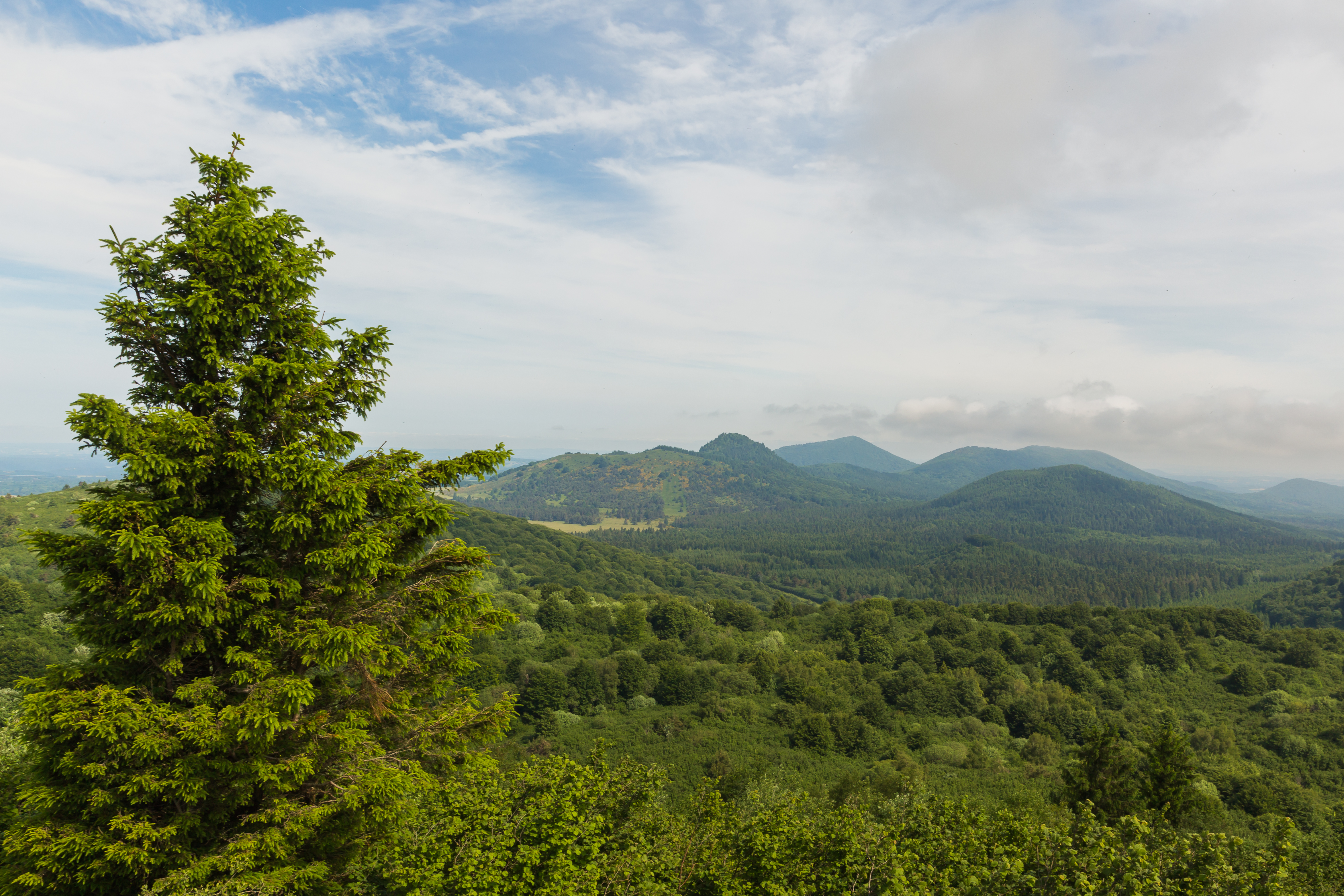 Southern slope of the chaîne des Puys from the puy Pariou in Auvergne, France. From left to right, the puy des Gouttes, the Puy Chopine, the Puy de Louchadière, the twins puys of the Coquille and Jume and the Puy de Chaumont.